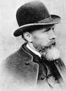 Walery Eljasz-Radzikowski